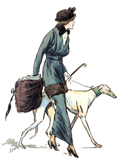 Lady with greyhound